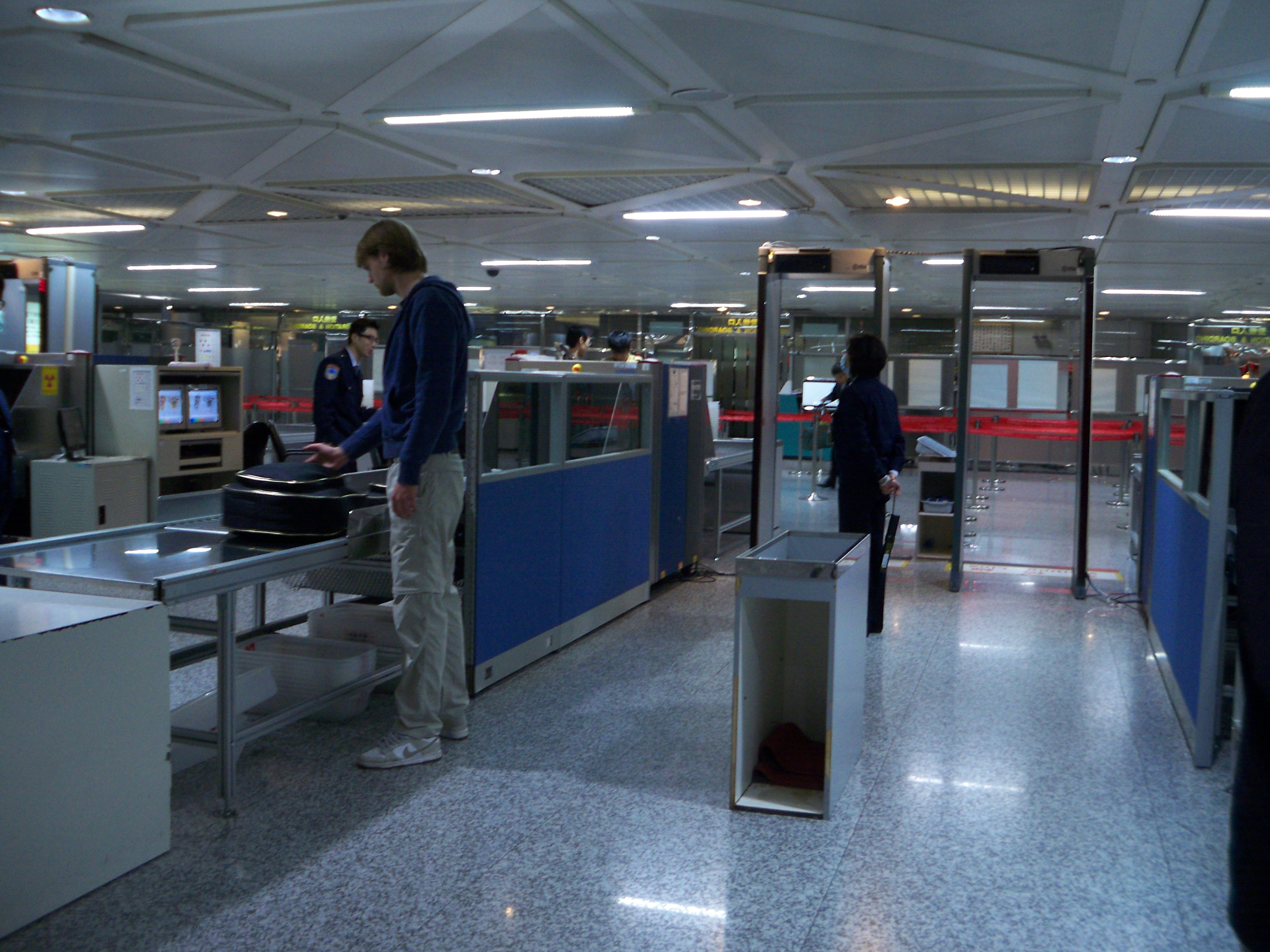 台灣桃園國際機場 安全檢查 Taiwan Taoyuan International Airport